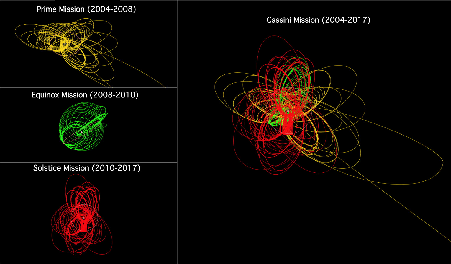 Cassini's past and future orbits